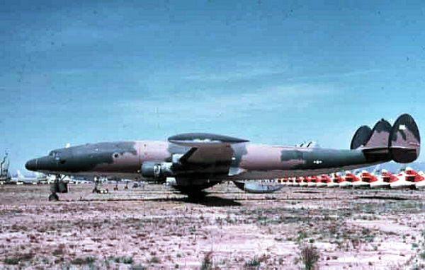 EC-121R of the 553d Reconnaissance Wing shown at the AMARC center, Davis-Monthan AFB Arizona.